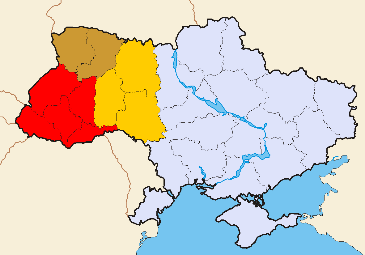 WesternUkraine. Filled with red - always included. With brown - often included. Yellow - sometimes included. See also